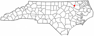 Category:North Carolina Dot Maps